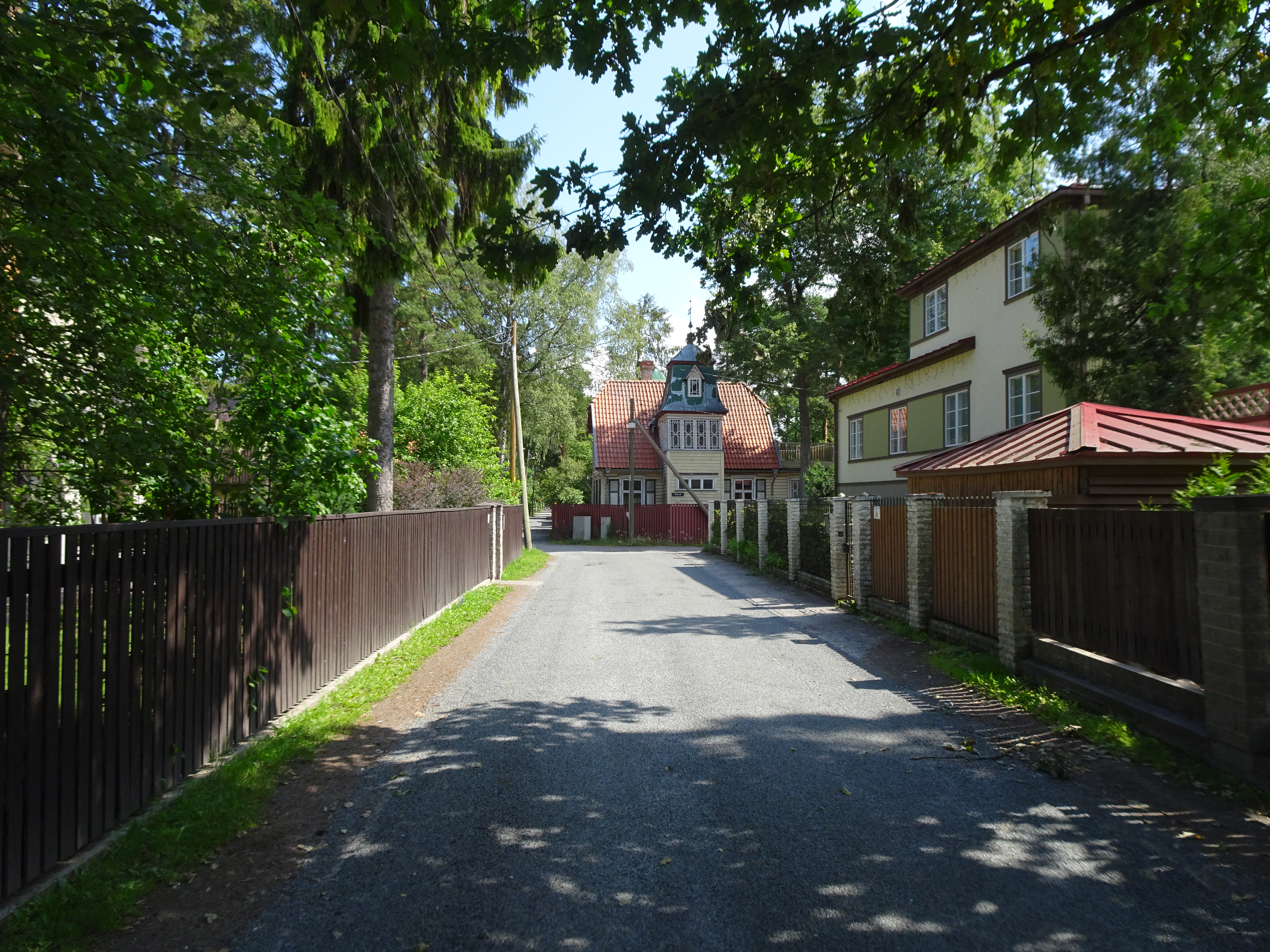 Nikolai von Glehn Street in Nõmme, Tallinn